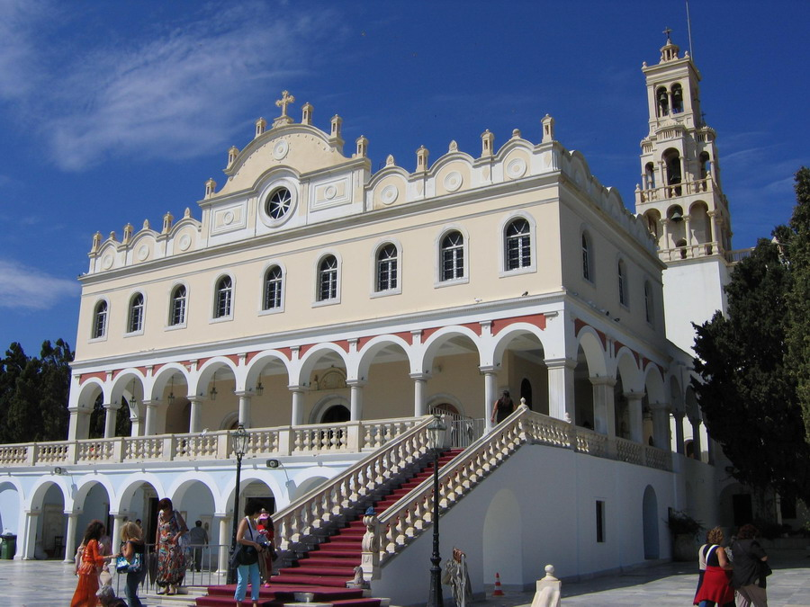 The Church of Panagia in Tinos, Aegean Sea